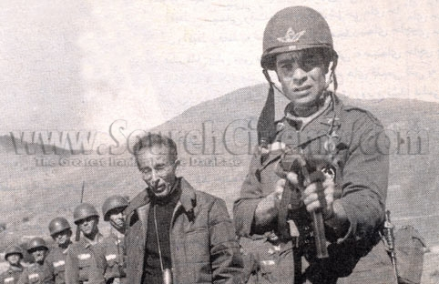 Samuel Khachikian - 1966